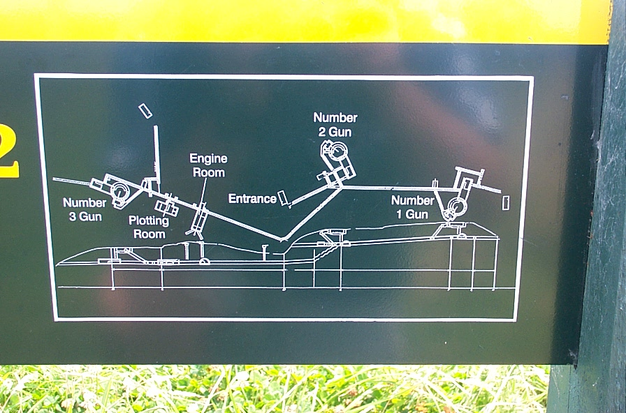 Diagram of the layout of Stony Batter, Waiheke Island